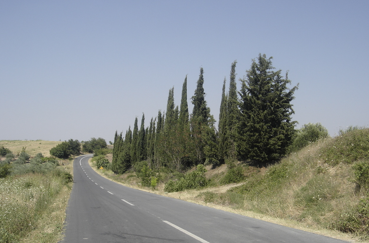 The road between Paliabela and Livadi, in Pieria.